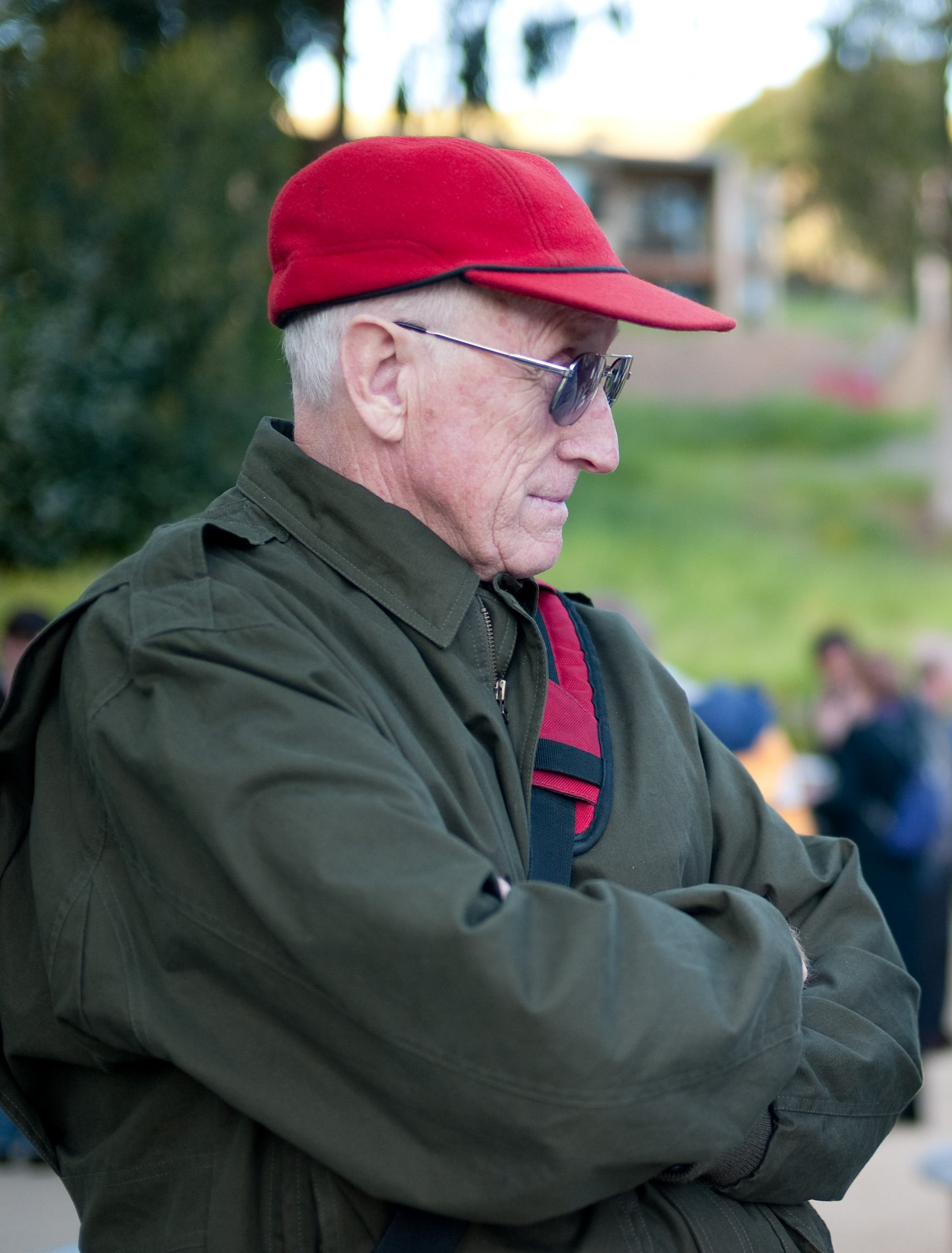 Stewart Brand in Sausalito, California, USA Image is cropped.